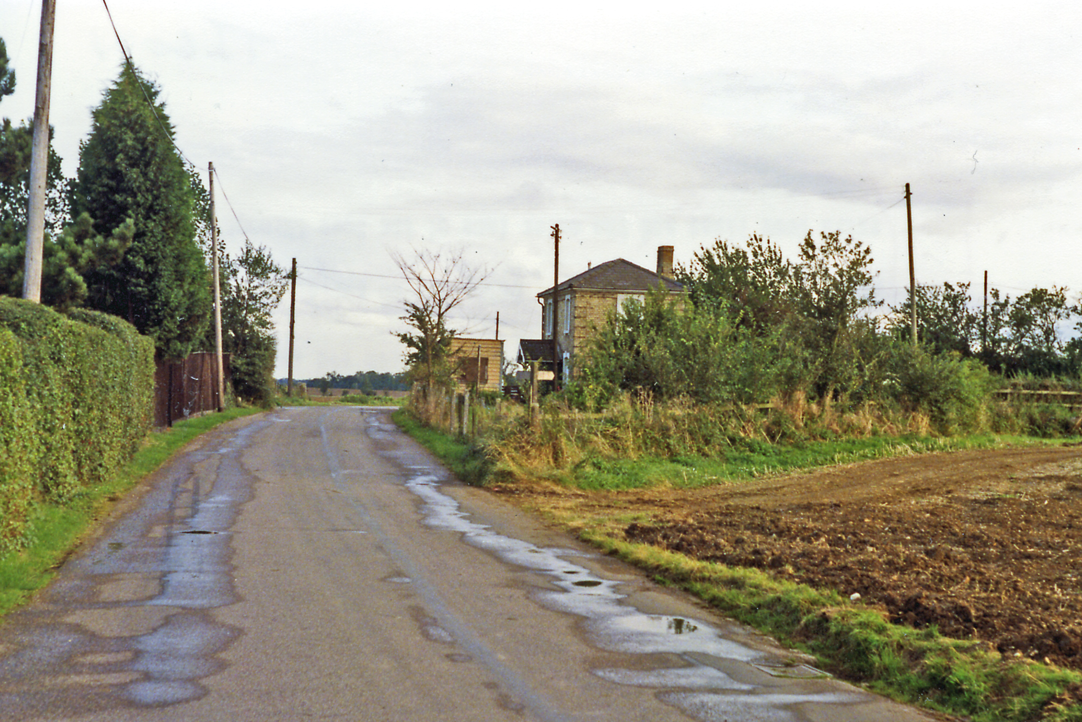 Remains of Easton Lodge station/halt, 1992. View southward off the A120 road to the former crossing over the ex-GER Bishops Stortford - Braintree line. The Halt closed when the passenger service ceased from 3/3/52, but the line remained open for freight until 1971/72. The former stationmaster's house and Crossing-keeper's hut remain.